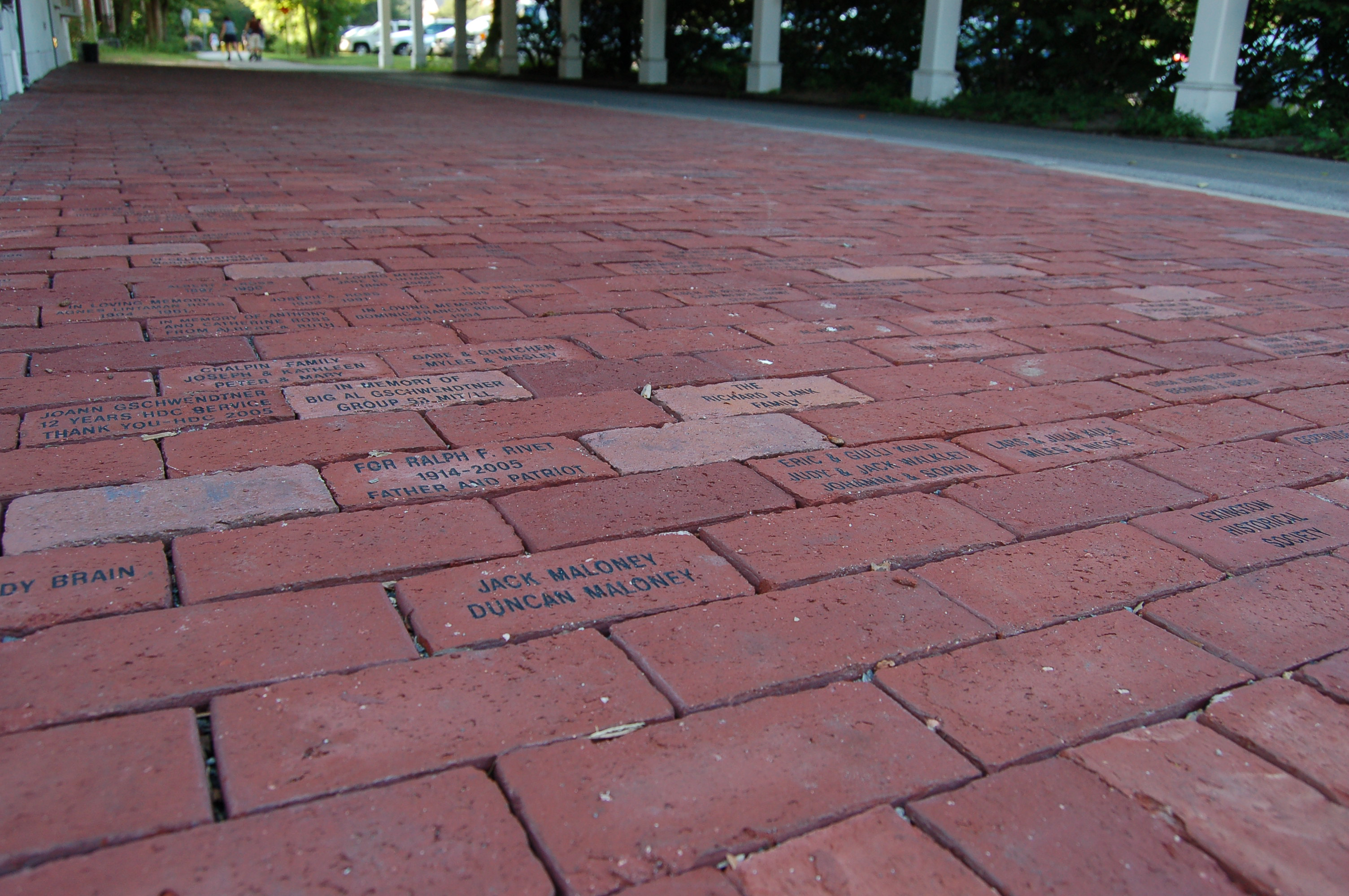 Engraved memorial bricks along the Minuteman Bikeway at the Lexington Depot in Lexington, Massachusetts.